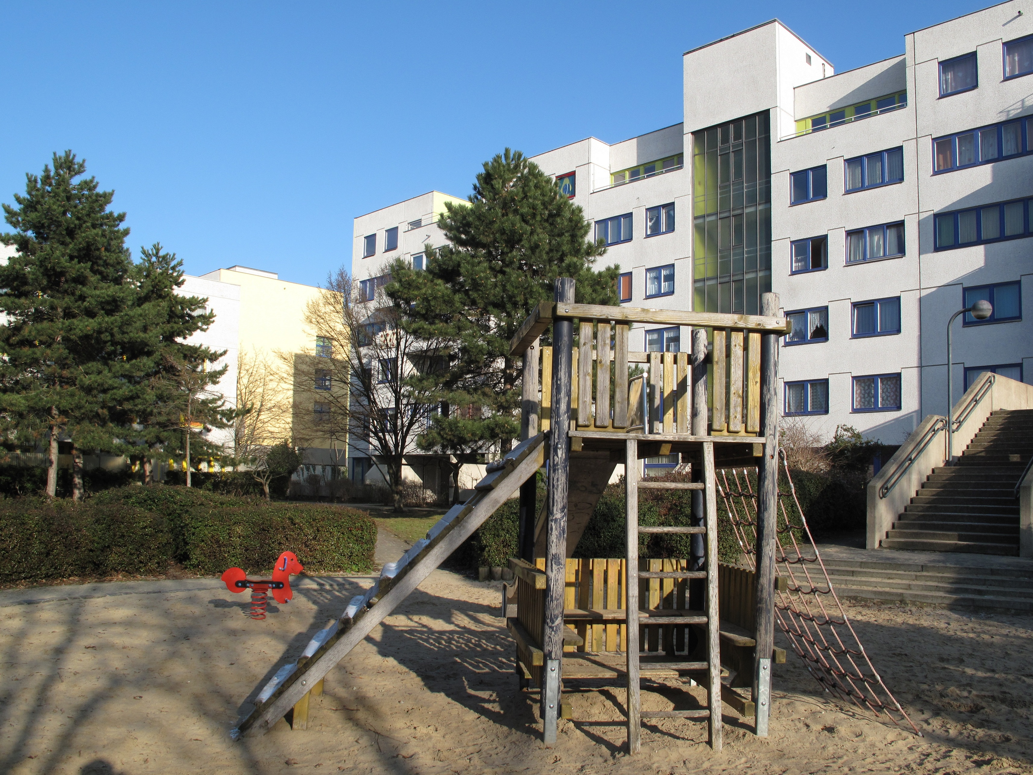 Playground in the High-Deck-Siedlung. The High-Deck-Siedlung is a housing estate in Berlin-Neukölln with ca. 6.000 inhabitants. The estate was built in the 1970s/1980s within the subsidized housing by the architects Rainer Oefelein and Bernhard Freund. Their innovative urban development concept counted on a structurally separation of pedestrians and traffic in opposition to Berlin's „urbanity through density“ conception (high-rise-estates) at that time. Above the streets spandrel-braced, green foot pathes (the High-Decks) connect the mainly five to six storied houses. Was the estate after it's construction regarded as the epitome of a tranquil and modern urban living at the green edge of West Berlin, it has evolved after the fall of Berlins Wall into a social hotspot. There was set up a neighbourhood management in 1999.